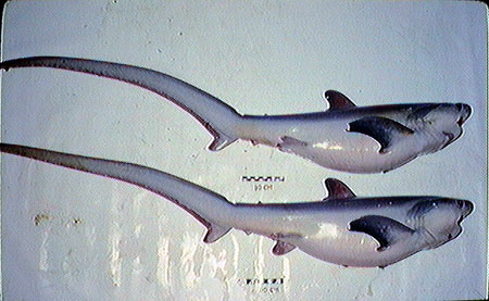 Common thresher shark (Alopias vulpinus) pups.